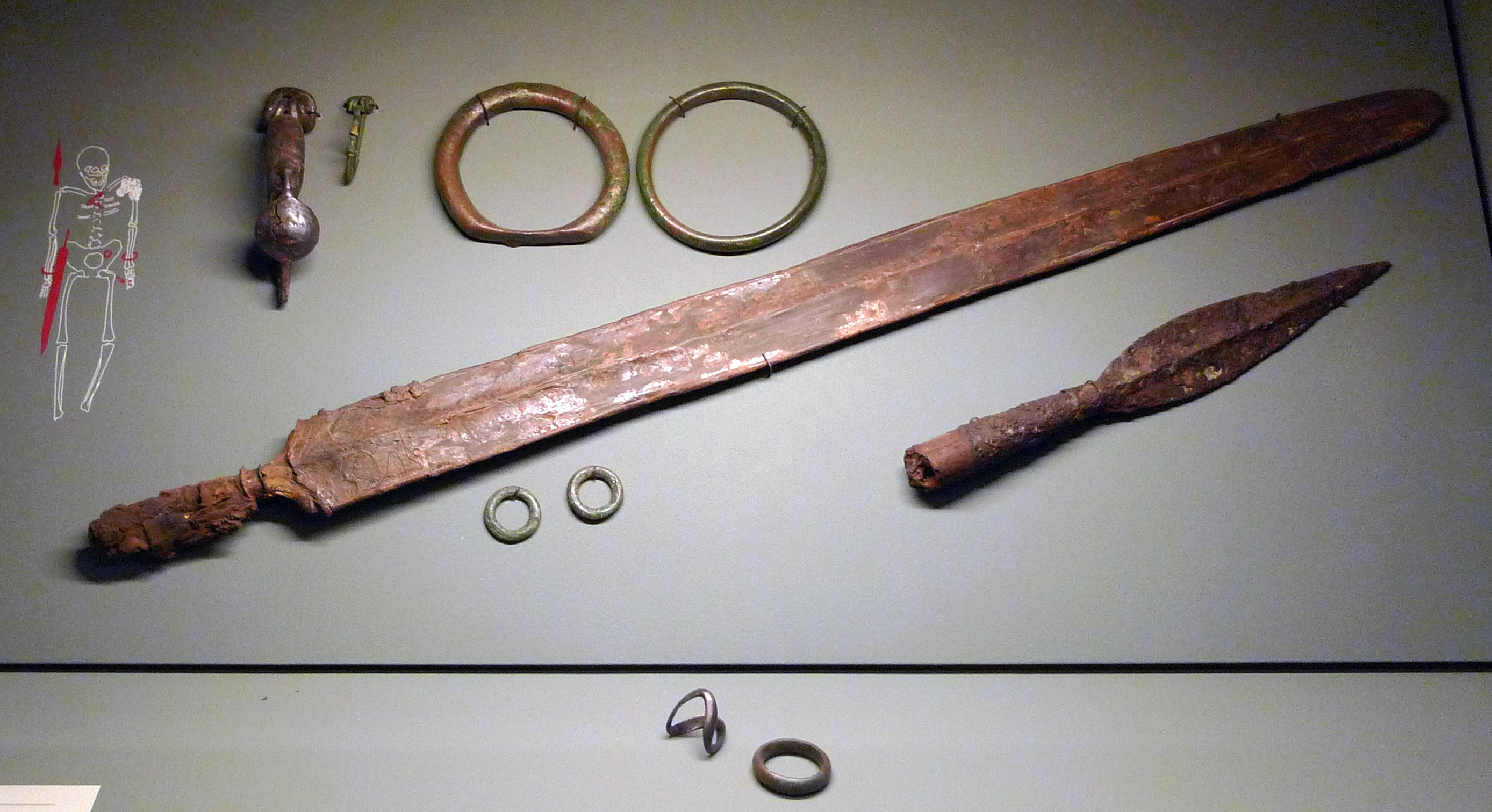 Items from an old man's grave, c. 300 BC. Sword and silver ring. Grave no. 138, Celtic burial site, "Rain", Münsingen, Switzerland.